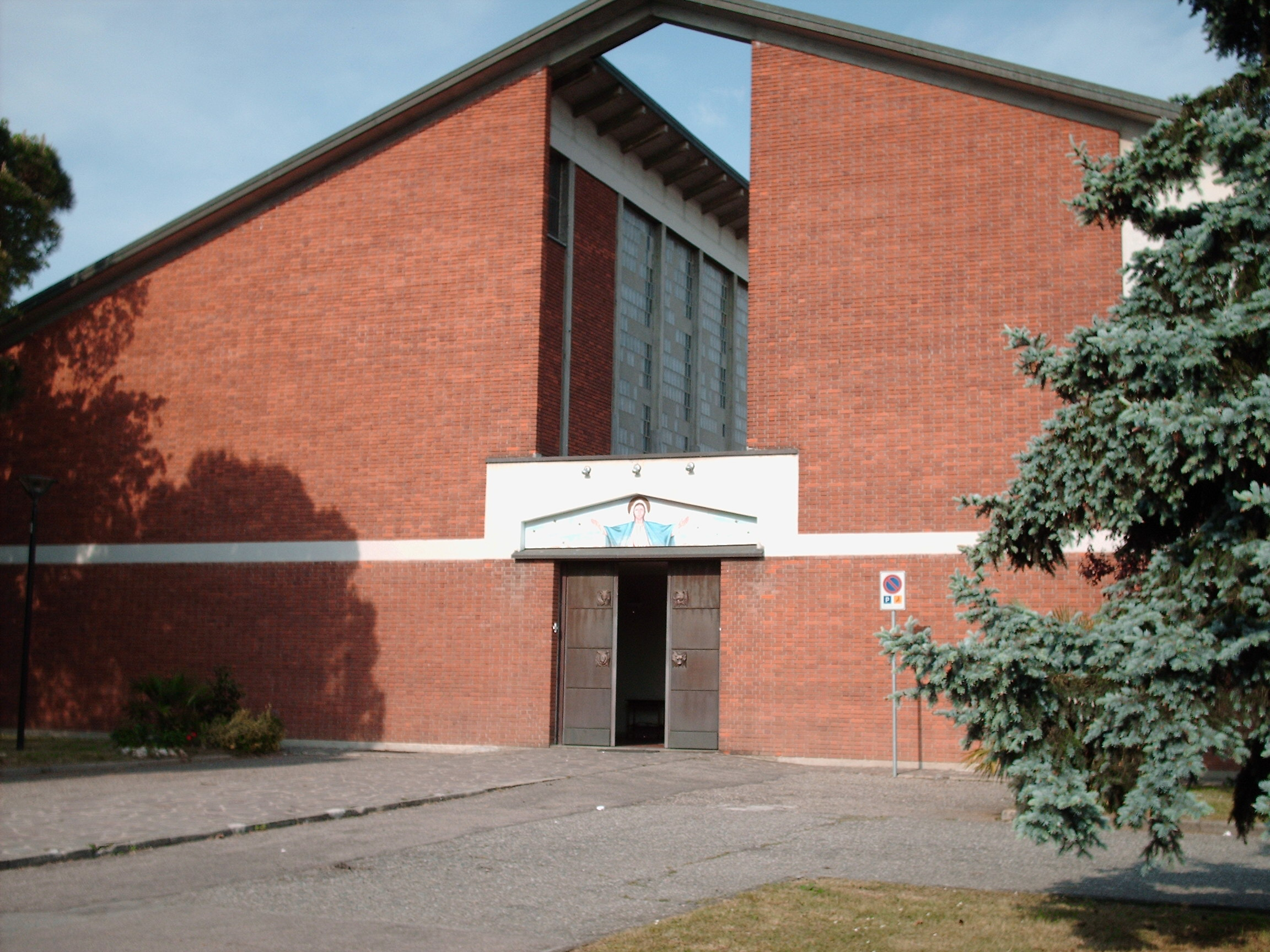 Chiesa